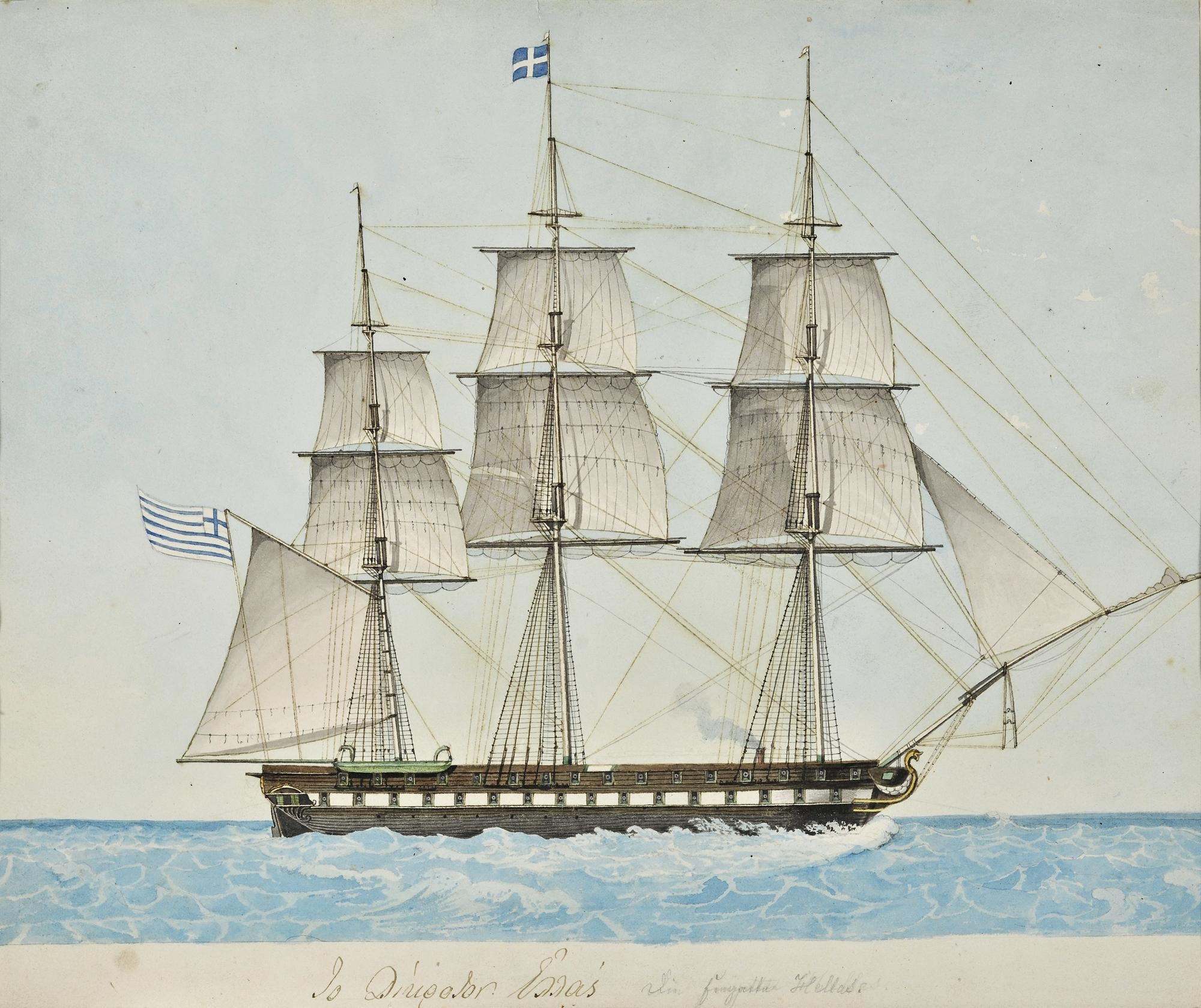 A portrait of the Frigate "Hellas" in 1827. The Frigate is flying an early version of the Greek flag.